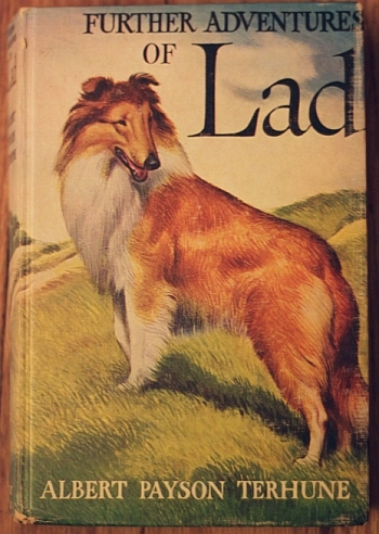 Photograph of the 1922 Grosset & Dunlap reprint of Further Adventures of Lad;[1] photograph taken by original uploader, AnmaFinotera